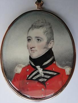 Minature of General General Henry James Riddell